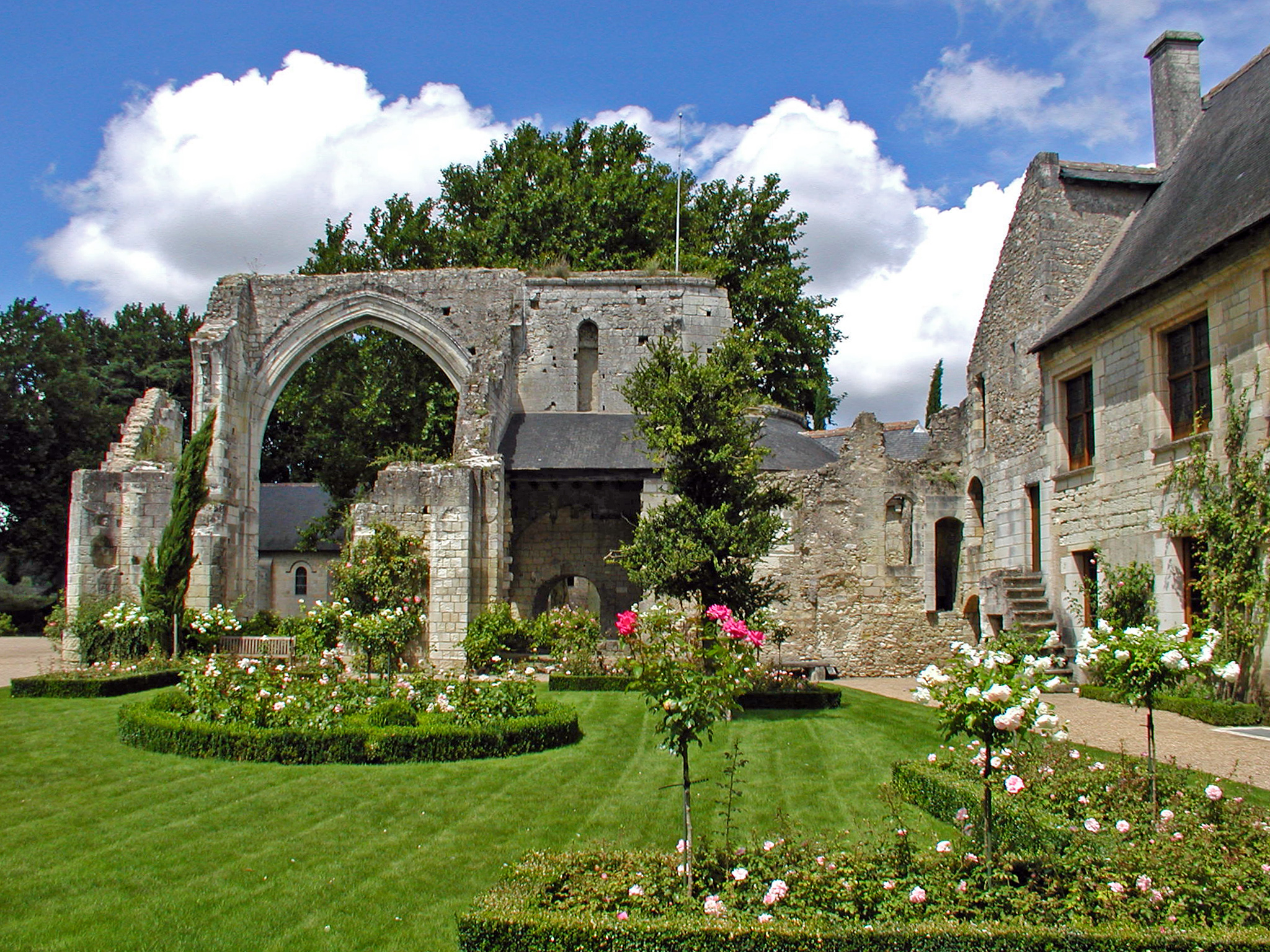 Le Prieuré de Saint-Cosme fut bâti du début du XIème siècle au XVème siècle. La rose est la reine des neuf jardins du prieuré. Ronsard fut prieur des lieux de 1565 à 1585. The Priory of Saint-Cosme was built from the early eleventh century to the fifteenth century.The rose is the queen of the nine gardens of the Priory.Ronsard was prior of the sites from 1565 to 1585.